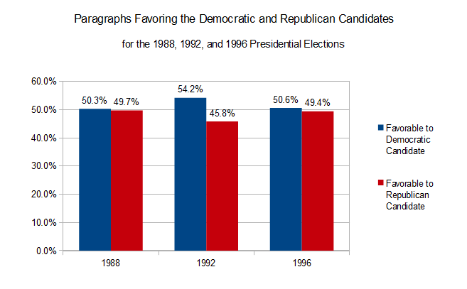 A chart showing positive/negative news coverage of republican/democratic candidates during the 1988, 1992 and 1996 Presidential elections. It's done to measure for any news bias.